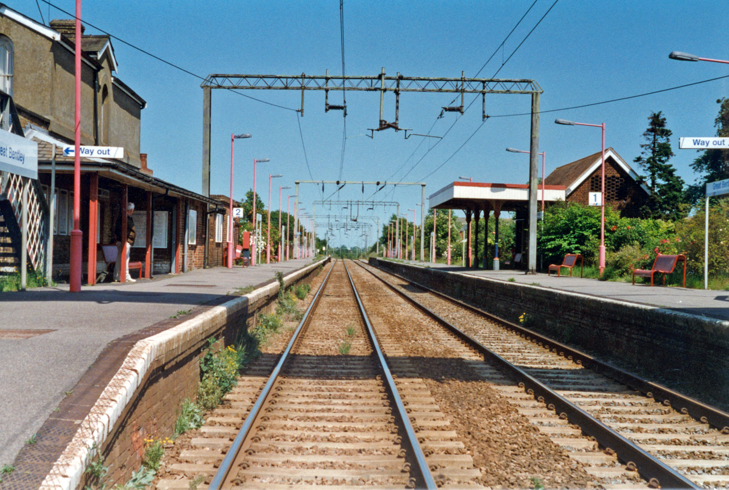 Great Bentley station, 1997. View eastward, towards Clacton-on-Sea and Walton-on-Naze: ex-GER line from Colchester, electrified March 1959.